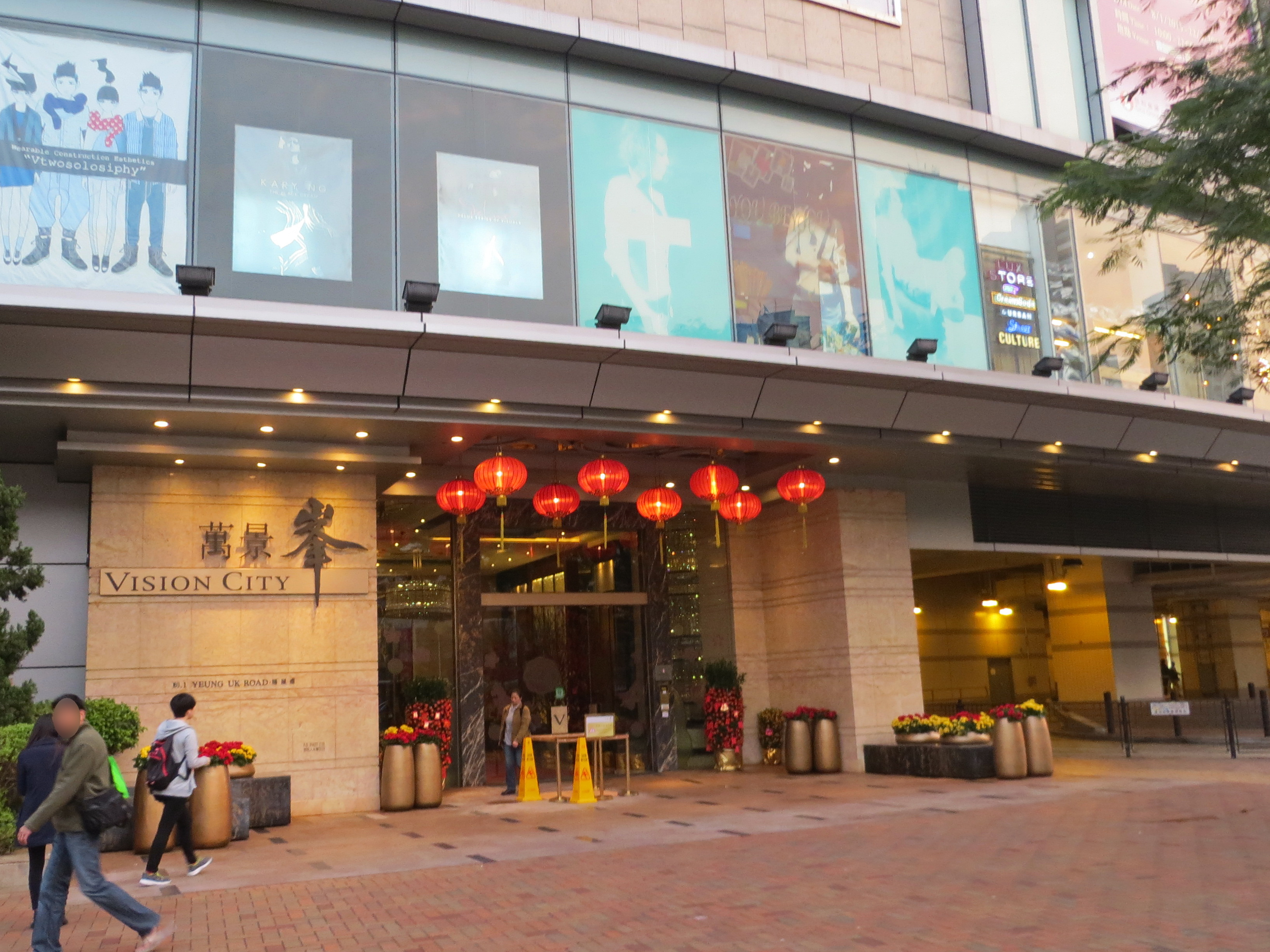 Vision City, Tai Ho Road Entrance, Tsuen Wan, Hong Kong.